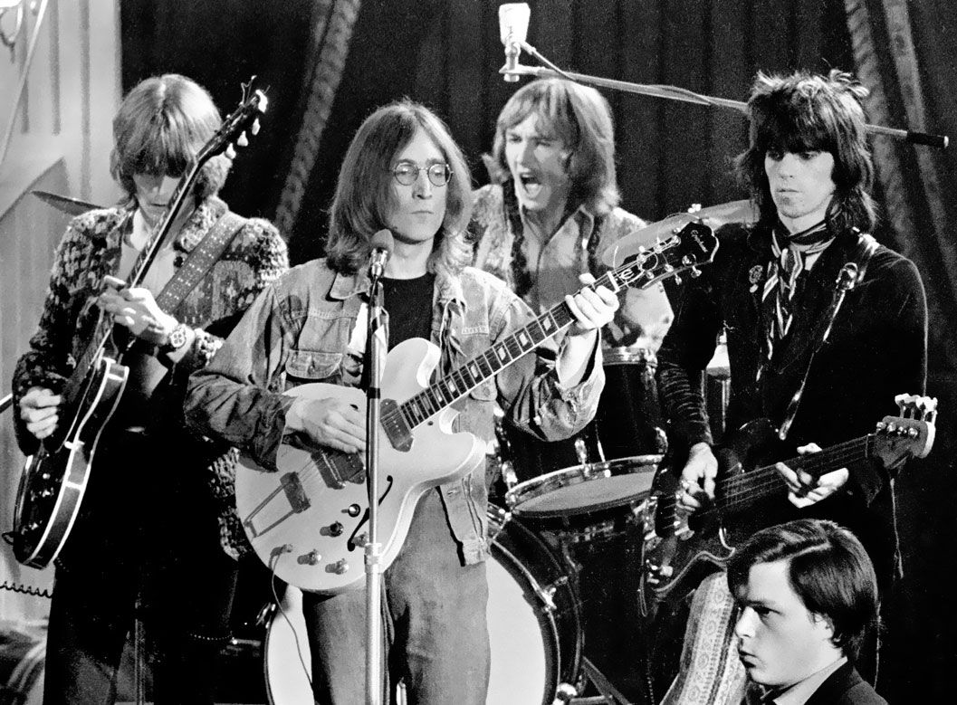 The Dirty Mac